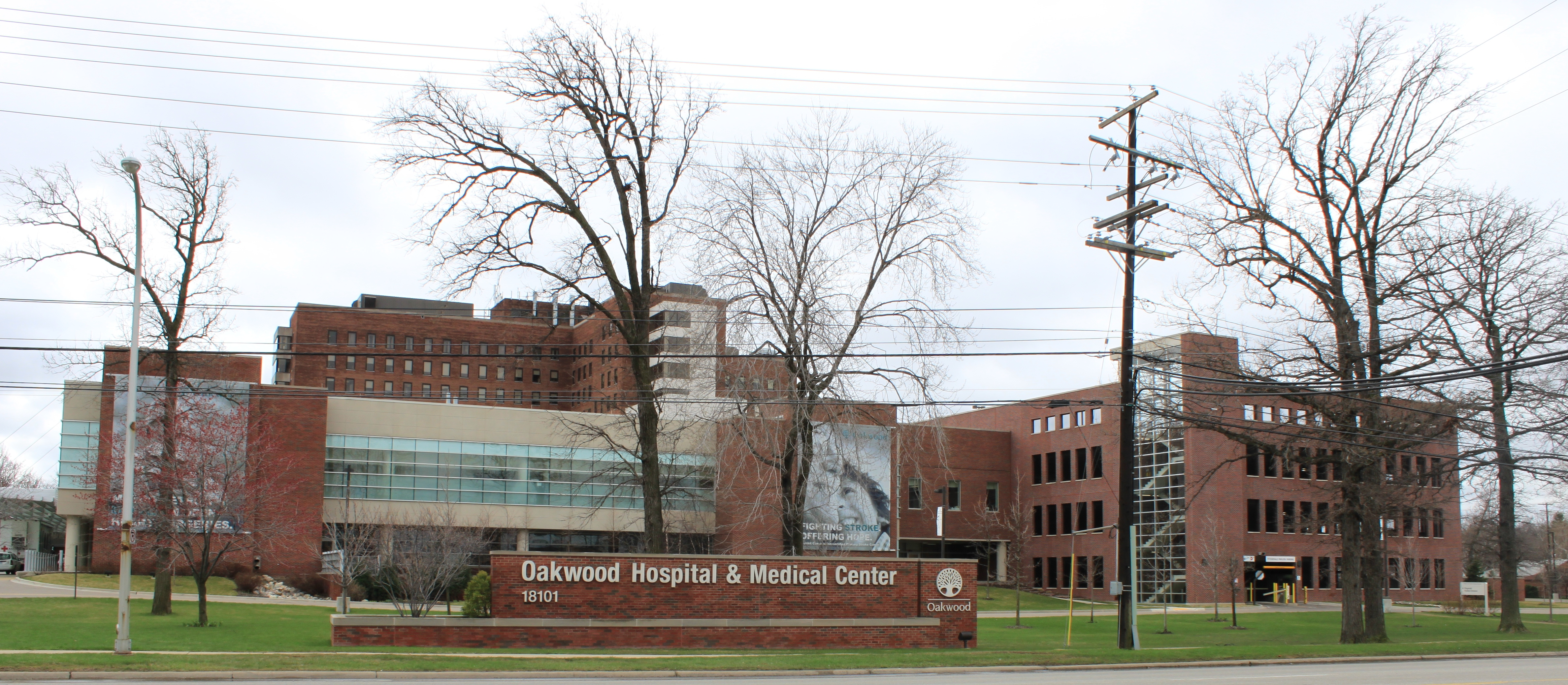 Oakwood Hospital and Medical Center, 18101 Oakwood Boulevard, Dearborn, Michigan